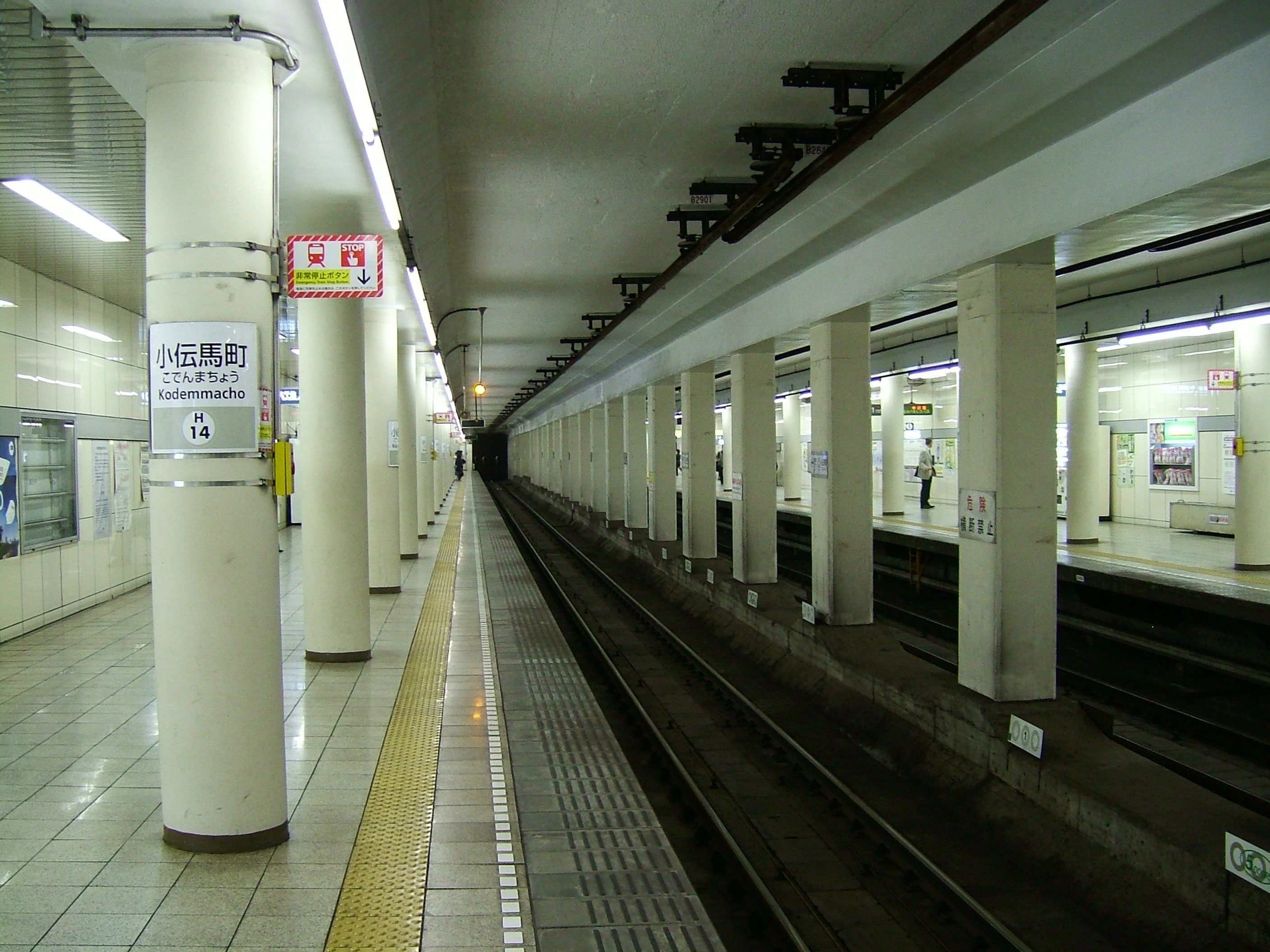 Kodenmachō Station platform (Tokyo Metro Hibiya Line)